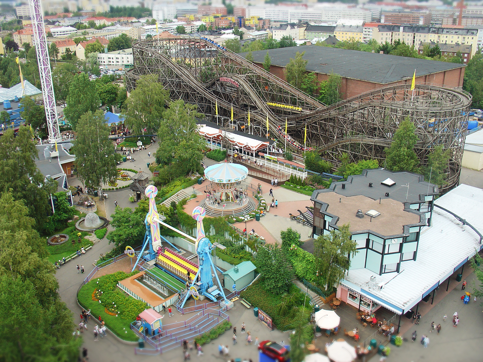 The Linnanmäki amusement park, Helsinki, Finland, as seen from the Panoraama observation tower.